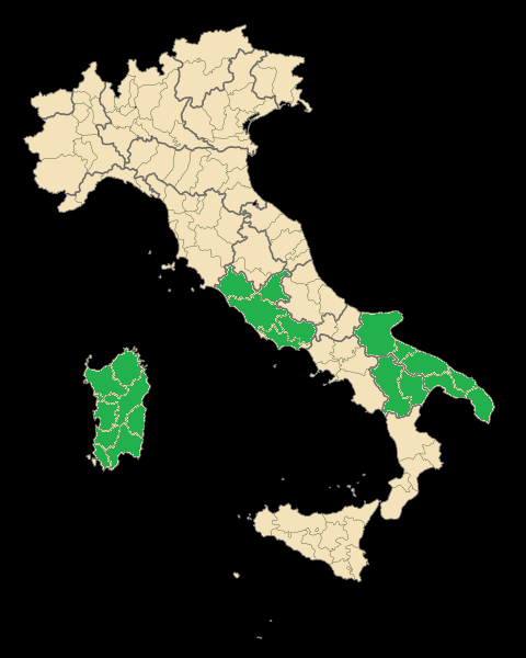 Highlight regions where the wine grape Bombino nero is grown. Not sure why the background is black as the original commons file File:Map of Italy blank.svg I used has it white.